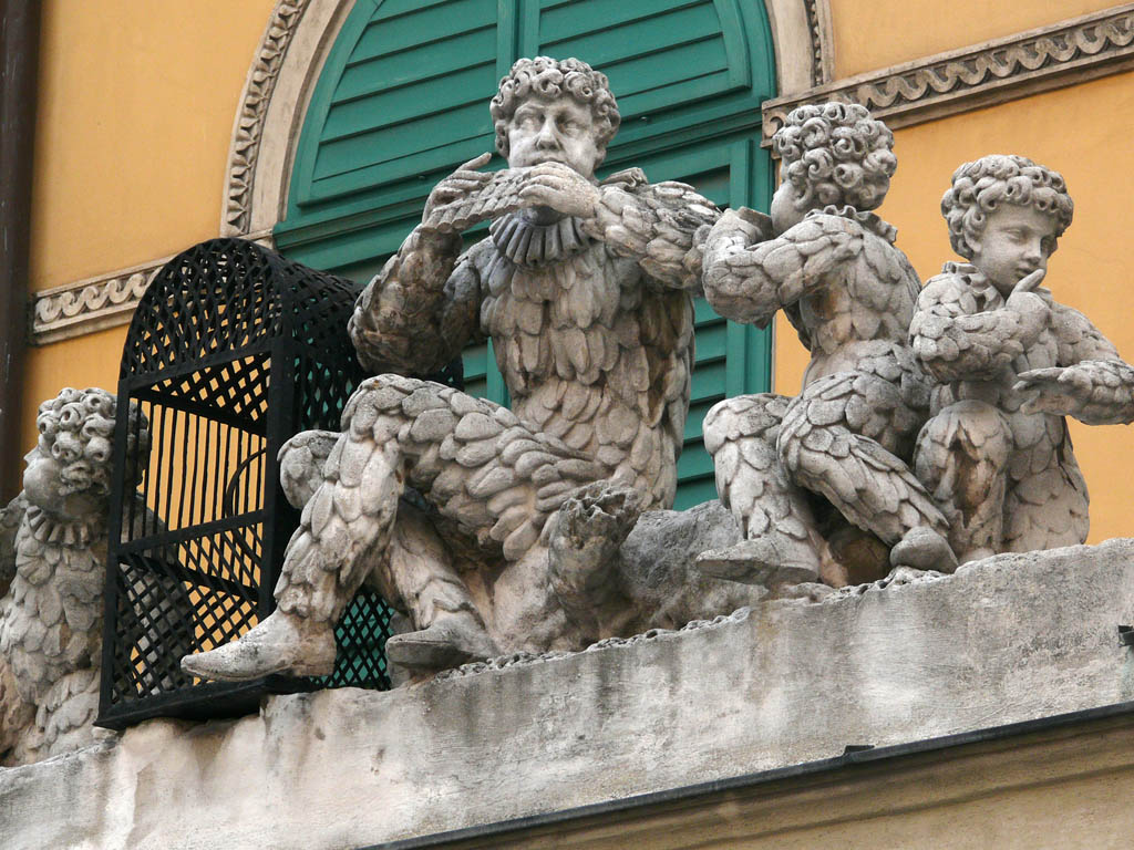 Papagenotor, detail